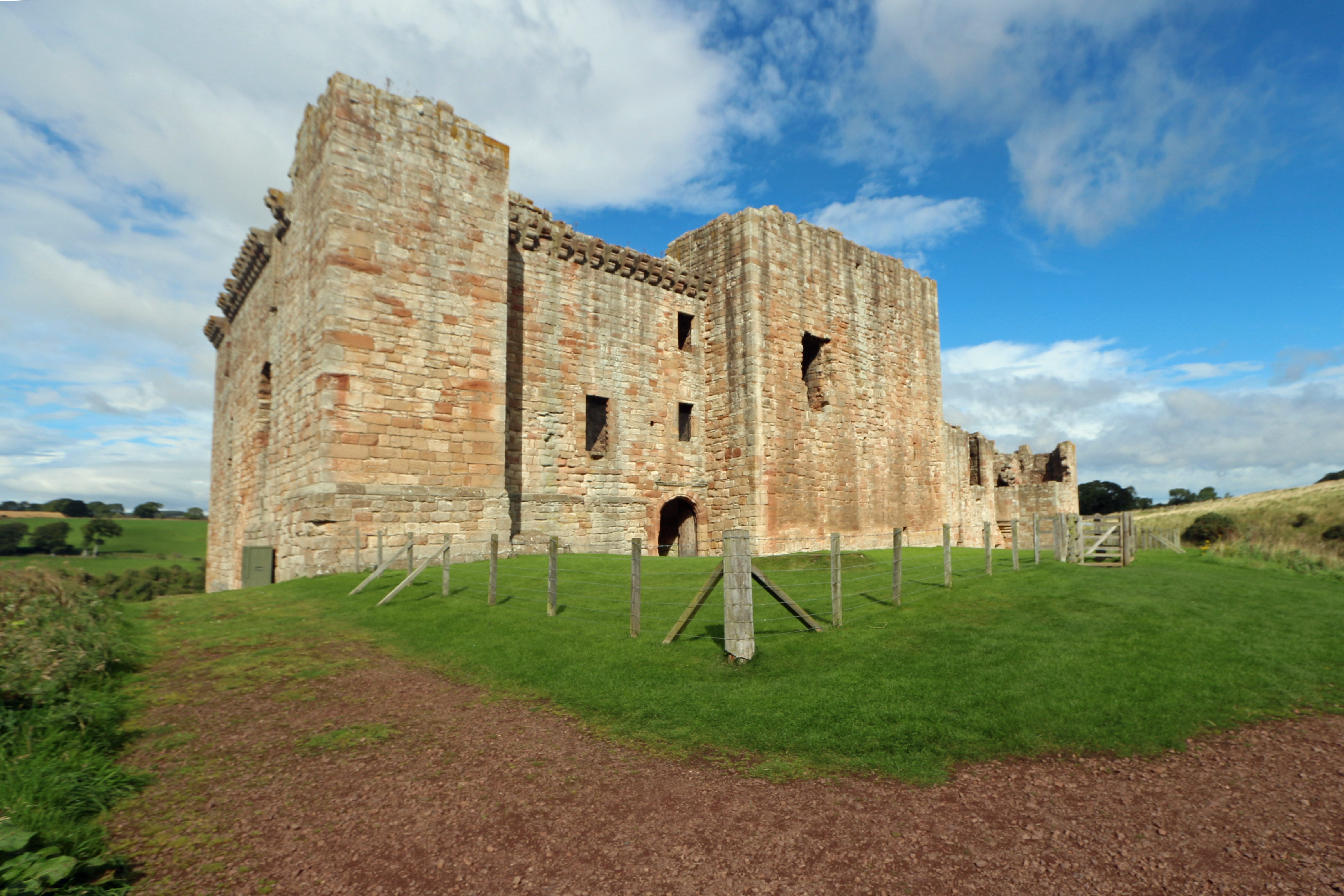 Crichton Castle Wikidata has entry Q2576658 with data related to this item.